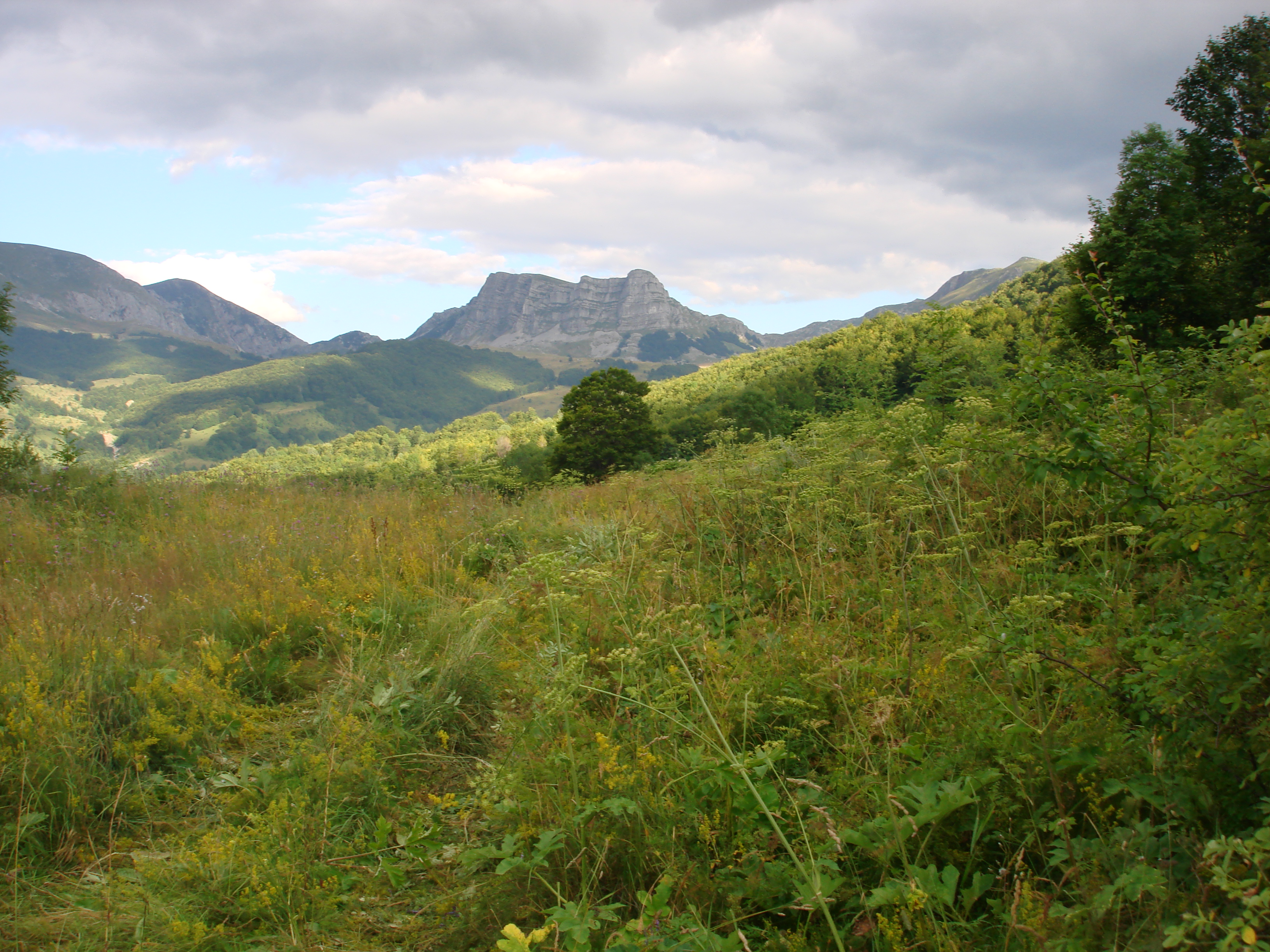 The photo displays the hamlet Sokolovina in the village Izgori in the vicinity of the town Gacko in the Eastern Herzegovina.